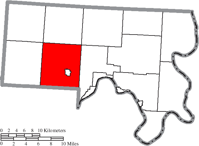 Map of the municipal and township boundaries of Meigs County, Ohio, United States, as of the 2000 census, with the location of Rutland Township highlighted. Township borders are shown only in unincorporated areas in order to differentiate incorporated and unincorporated areas more clearly.